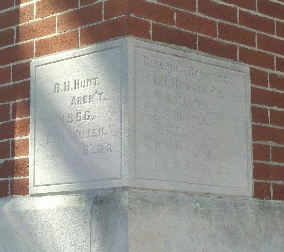 Cornerstone at the Henry County Courthouse, Paris, Tennessee.